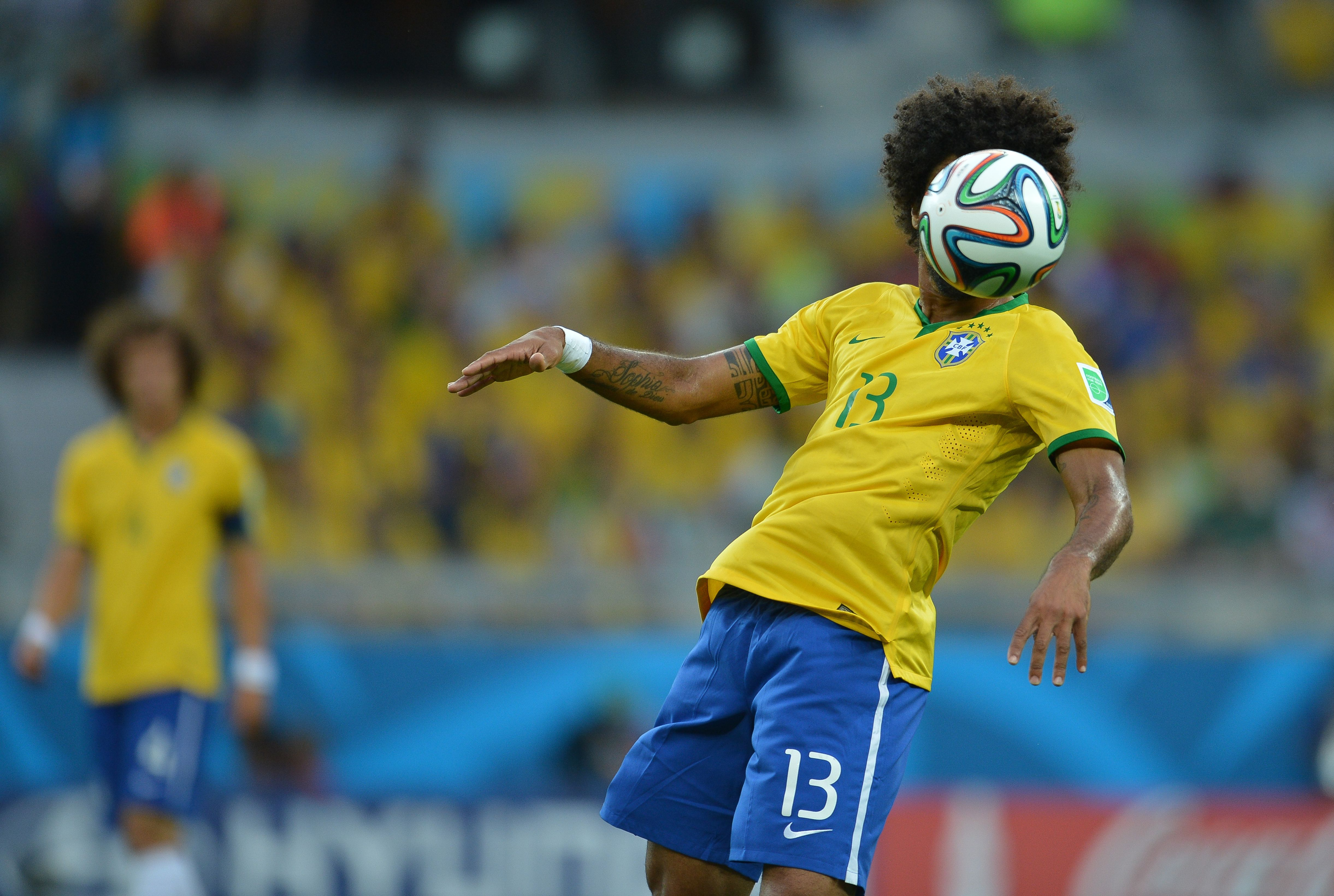 Brazil vs Germany, in Belo Horizonte